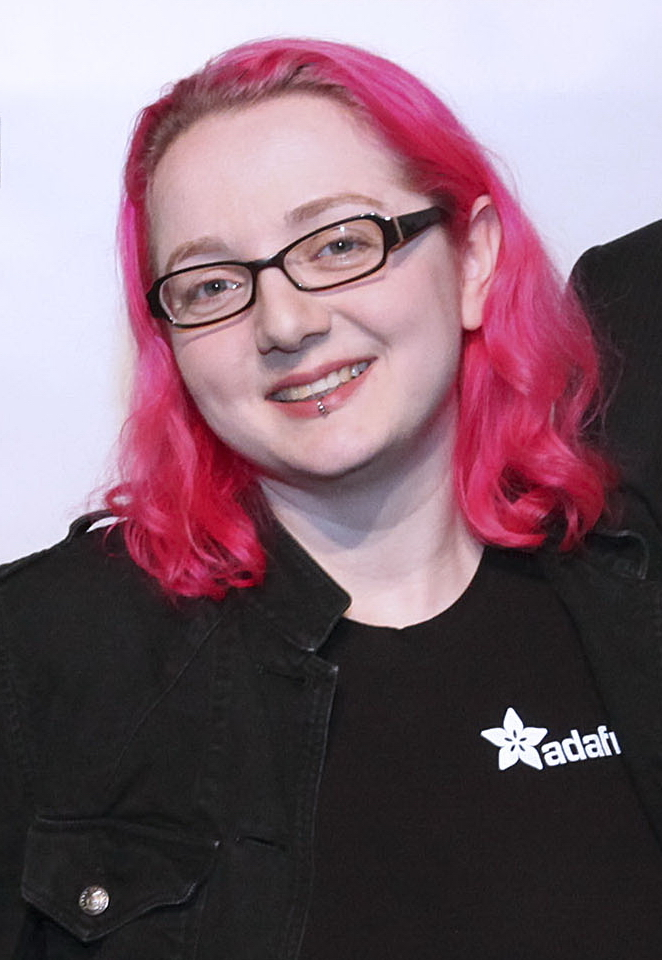 Limor Fried at TechCrunch Disrupt NY 2013 (cropped) Photo by Max Morse